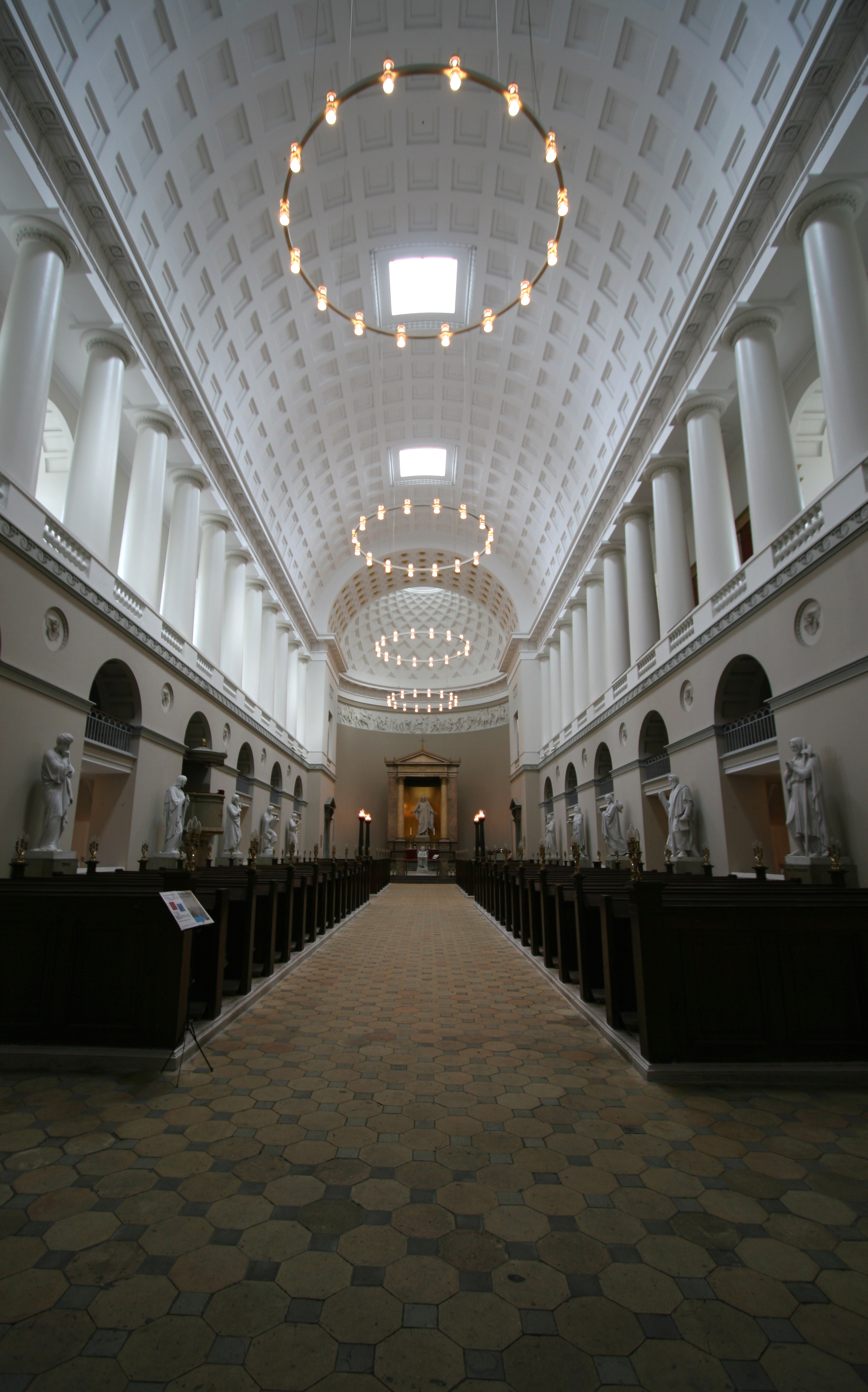 Vor Frue Kirke in Copenhagen, Denmark. The cathedral of Copenhagen. Interior, portrait format, wide angle.